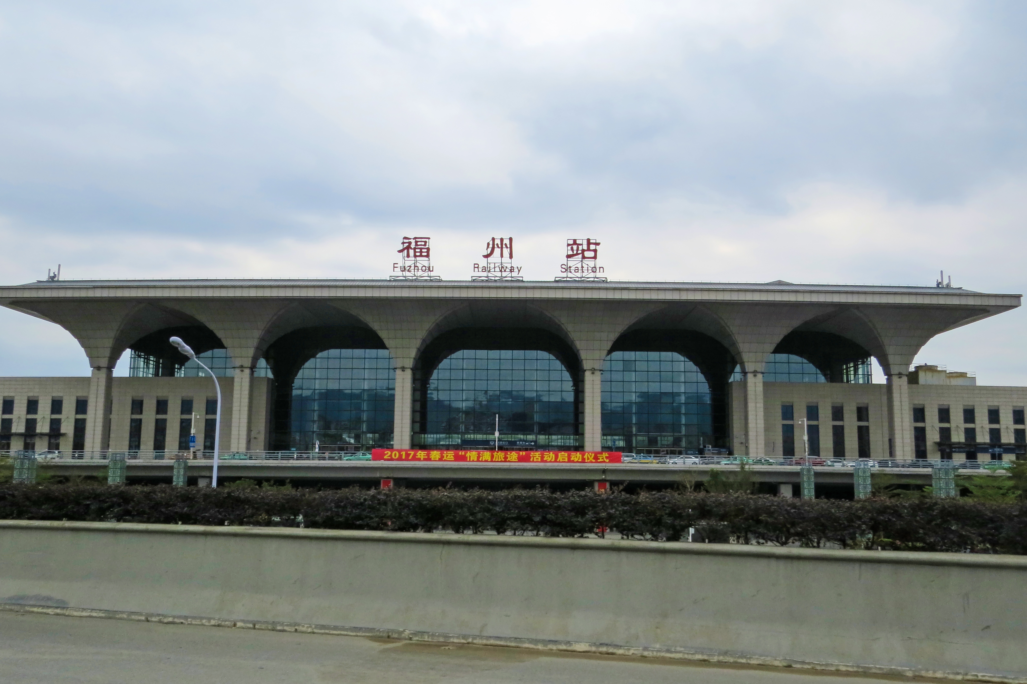 Some activities about Chunyun may have been held here.